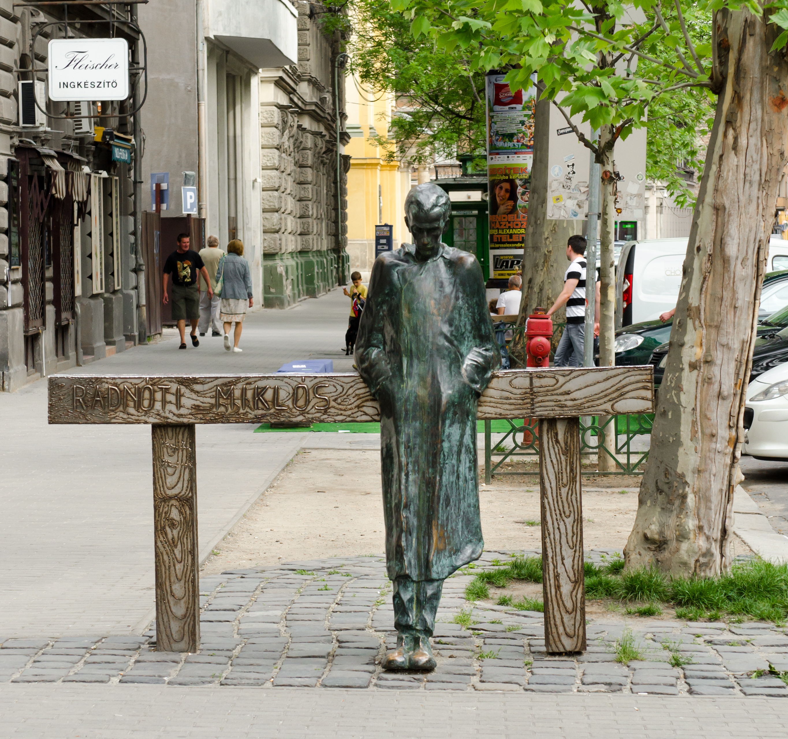 Statue of Miklós Radnóti by Imre Varga (2009) in Nagymező Street, Budapest District VI.